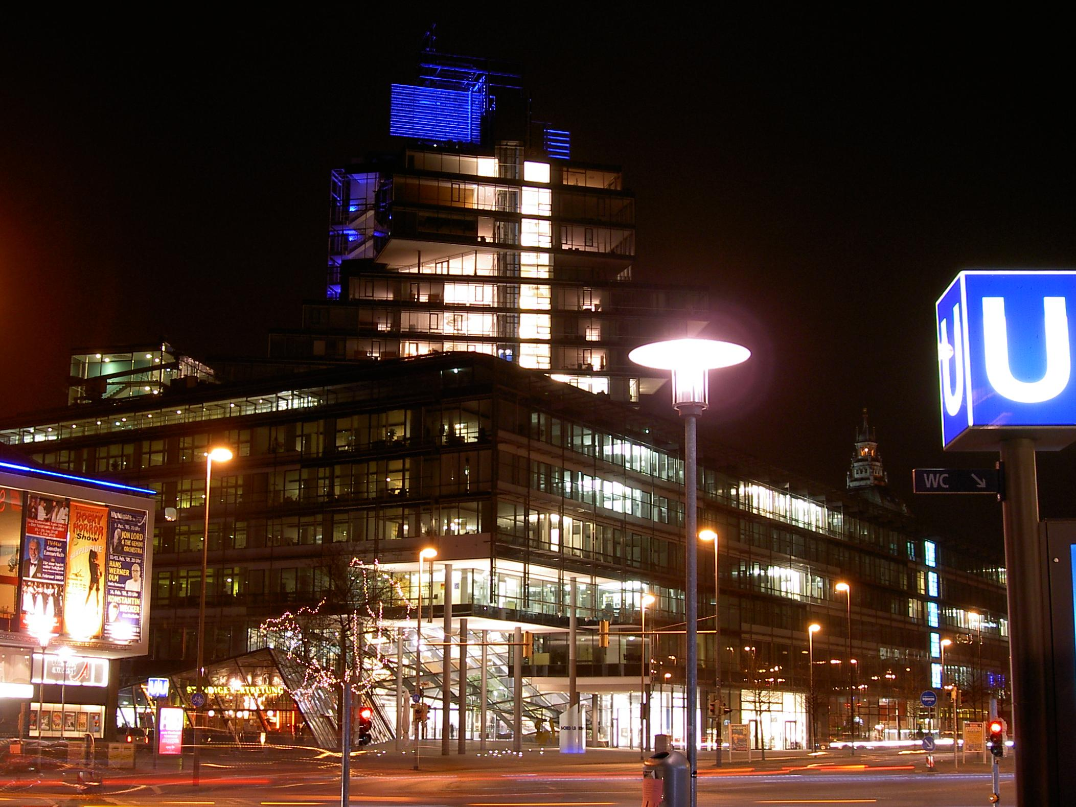 Norddeutsche Landesbank Hannover